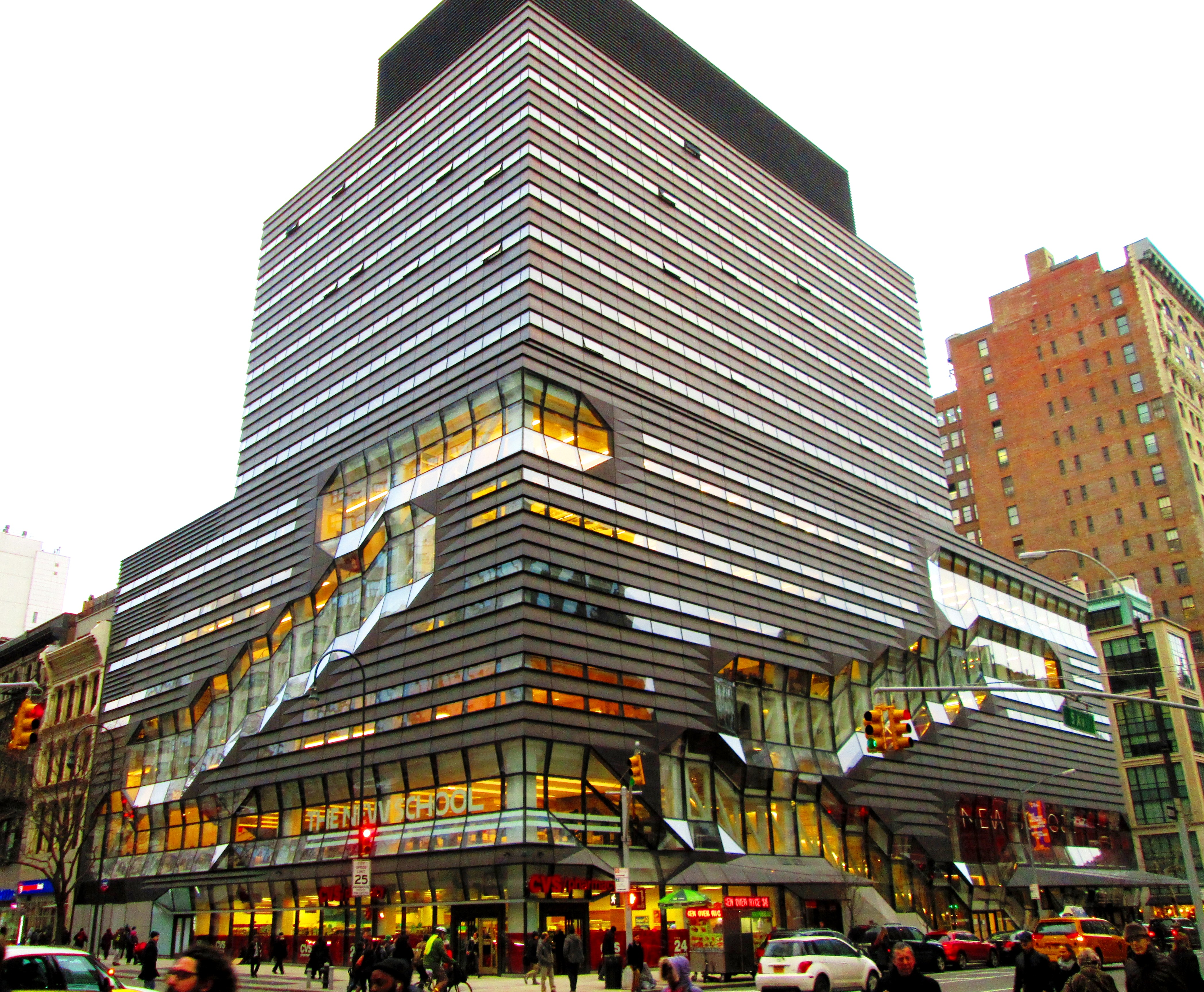 The University Center of The New School, located at 2 West 14th Street, at the corner of Fifth Avenue and 14th Street in Manhattan, New York City, contains classrooms, a dormitory, a library/research center, an auditorium, a cafeteria and an event center. It was built from 2011-14 and was designed by Roger Duffy of the firm of Skidmore, Owings & Merrill. It is a LEED Gold building. (Sources: NYC GIS map and [1])